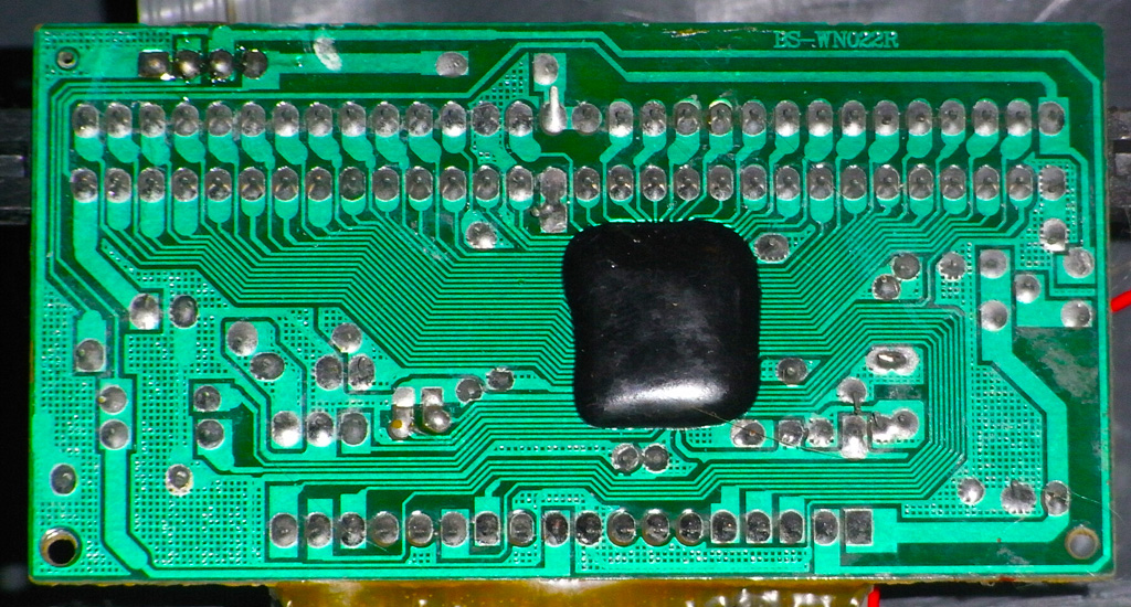 PCB from a Famicom clone console, "Mega Arcade Action" with NES on a chip (NOAC) under the epoxy blob.